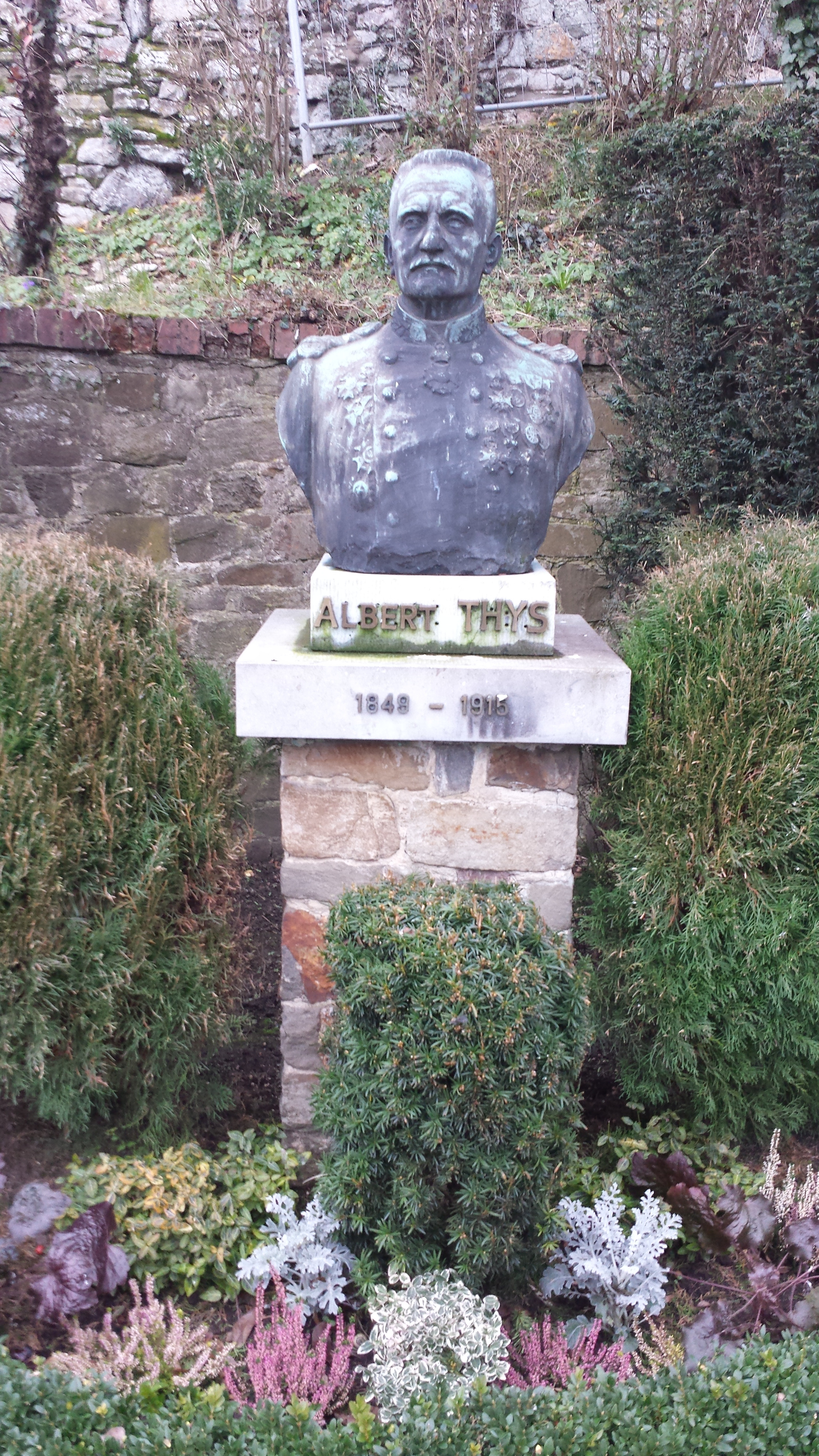 Bust of General Albert Thys (1849-1915) in Dahlem (Belgium), its birthplace. He was one of the main collaborators of King Leopold II in the Congo.